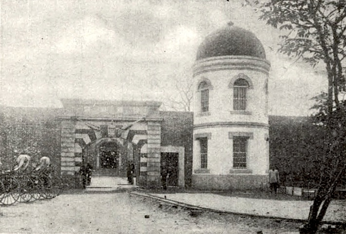 台南監獄 Tainan kangoku